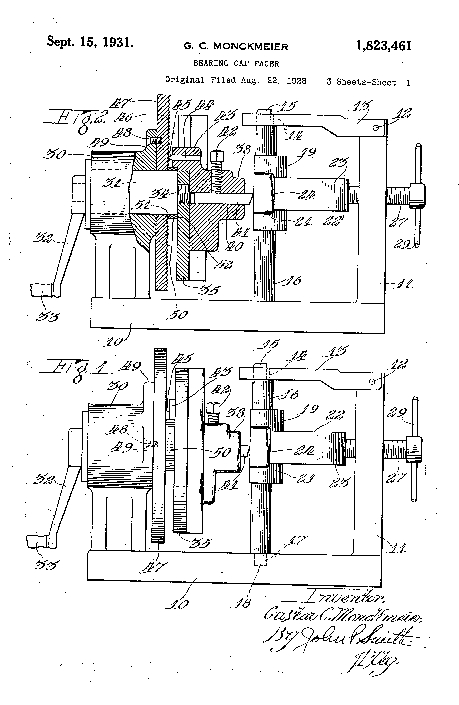 Patent drawing: Bearing cap finishing device